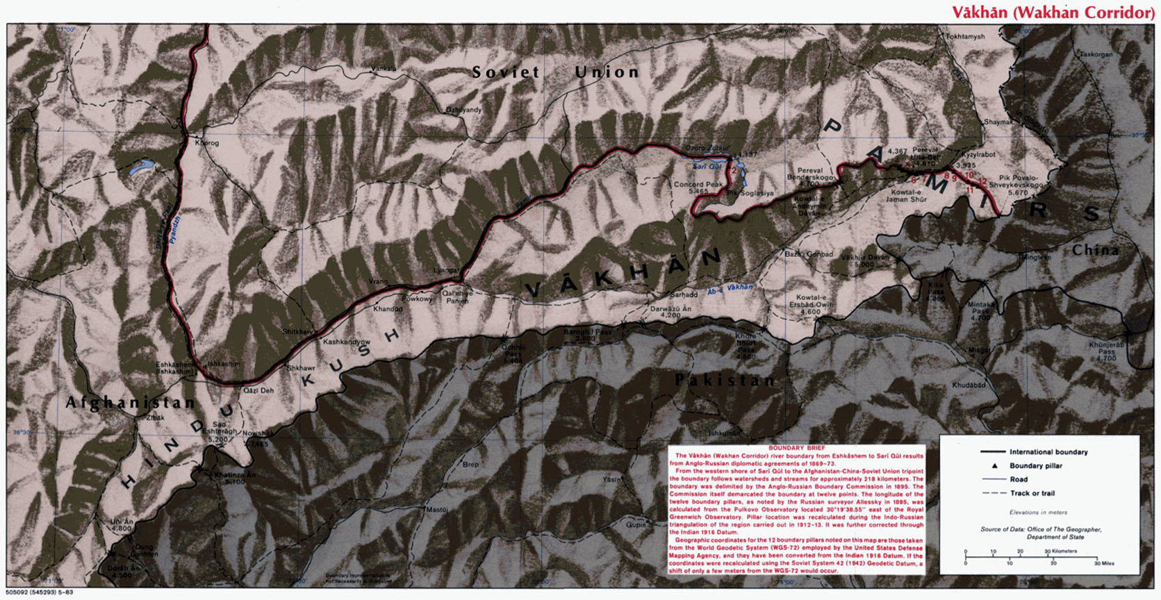 This is a map of the Wakhan (Vakhan) corridor and the Soviet-Afghan border circa 1983. It includes the Pamir River, the Panj River (Pyandzh), lake Zokul (Sariqul), Ab-e Vakhan.